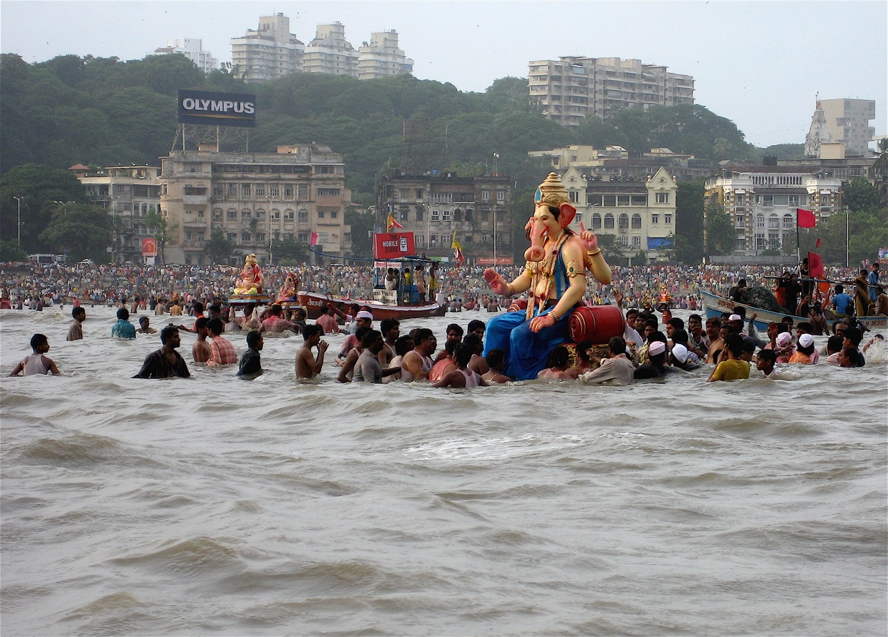 Ganesh Visarjan at Girgaum Chowpatty c.2007